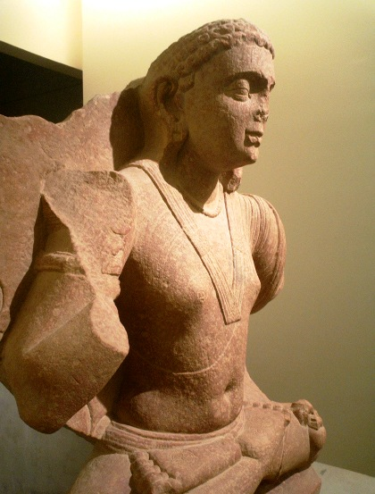 Mathura Bodhisattva. Musee Guimet, Paris. Personal photograph, 2004.